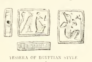 remains found at Zawata